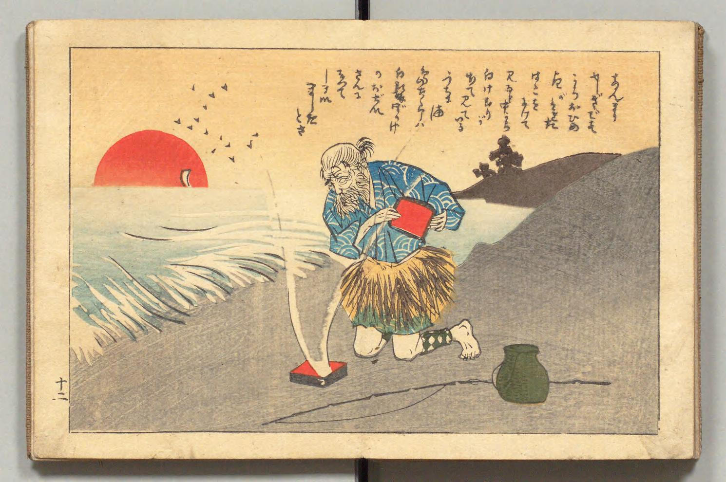 p. 12 Urashima opens the tamatebako, smoke appears and turns him into a hoary-white haired old man.